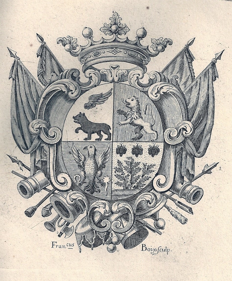 Coat of arms of the first Marquis of Alos